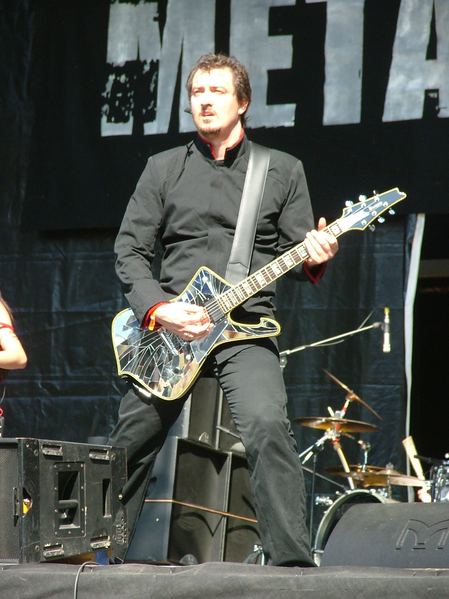 German symphonic metal band Krypteria at the Metalcamp in Tolmin